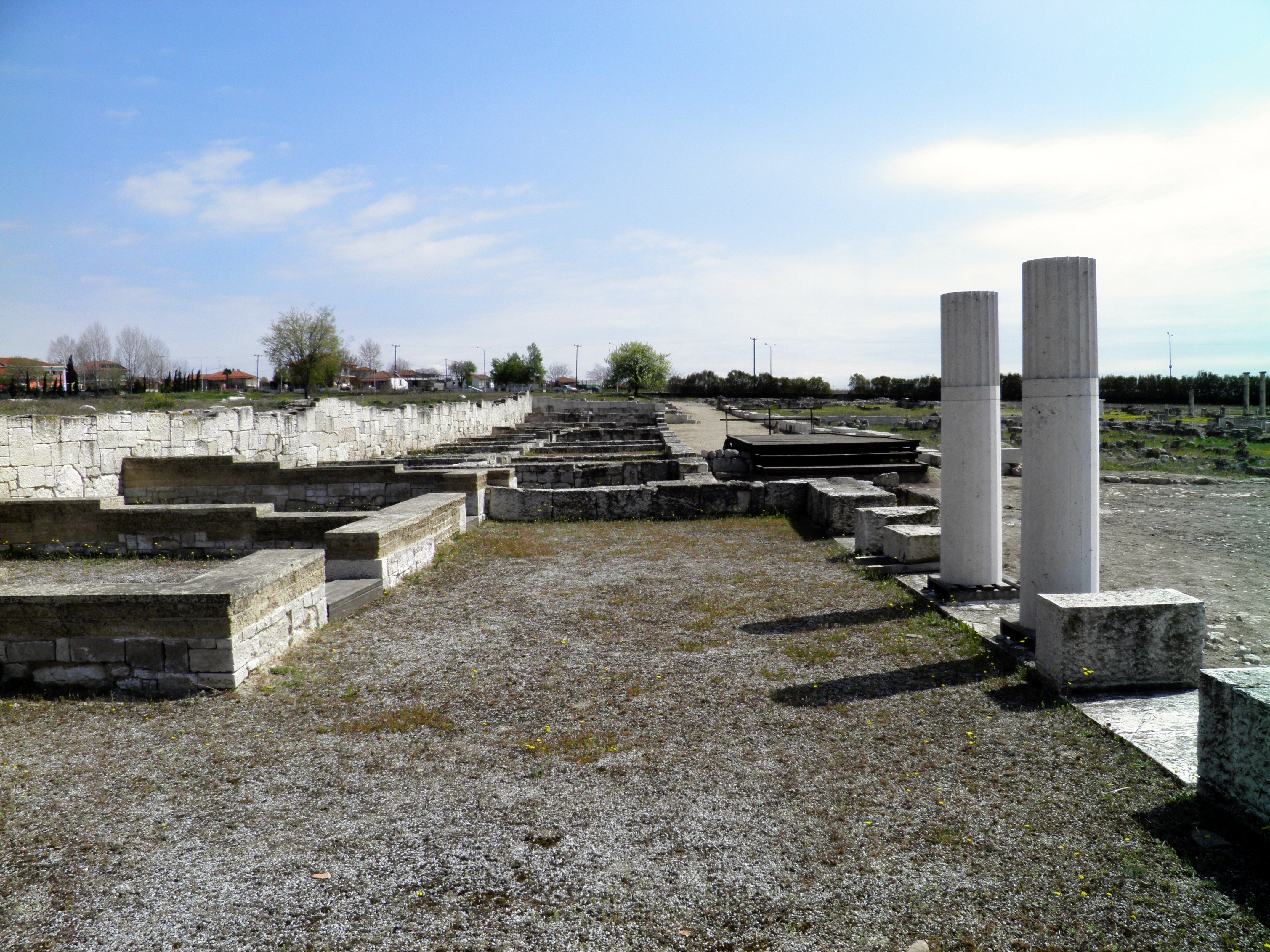 Shops right along the eastern edge of the agora, Ancient Pella